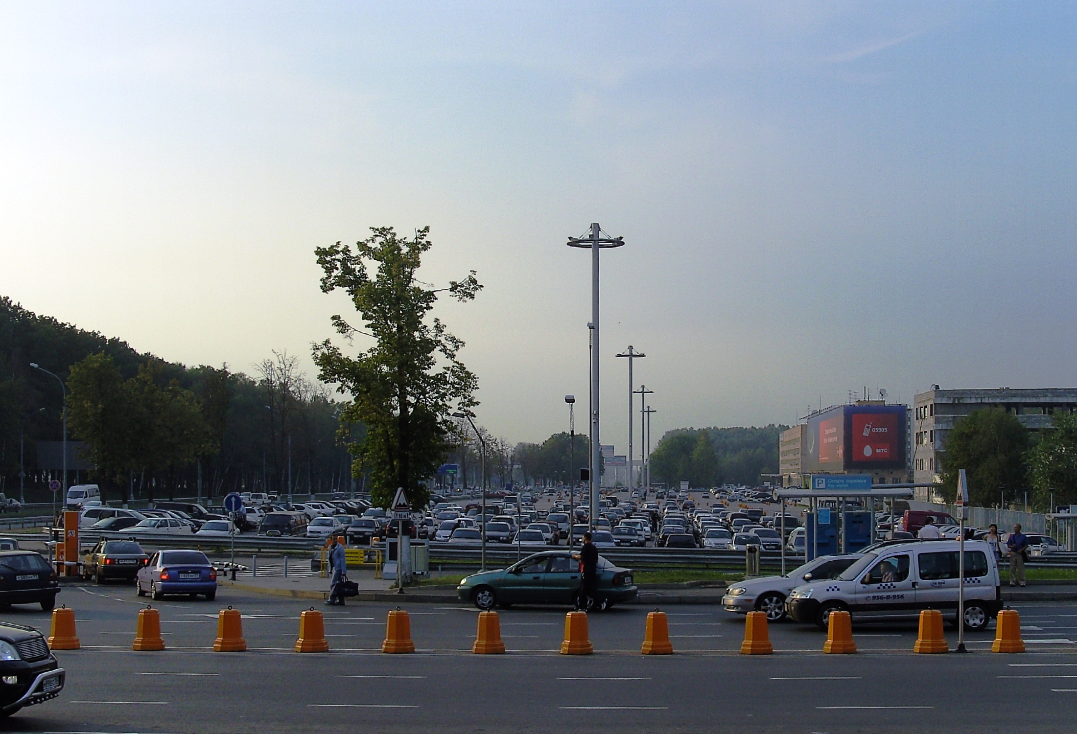 Outside the airport: parking lots for passengers of Domodedovo International Airport.